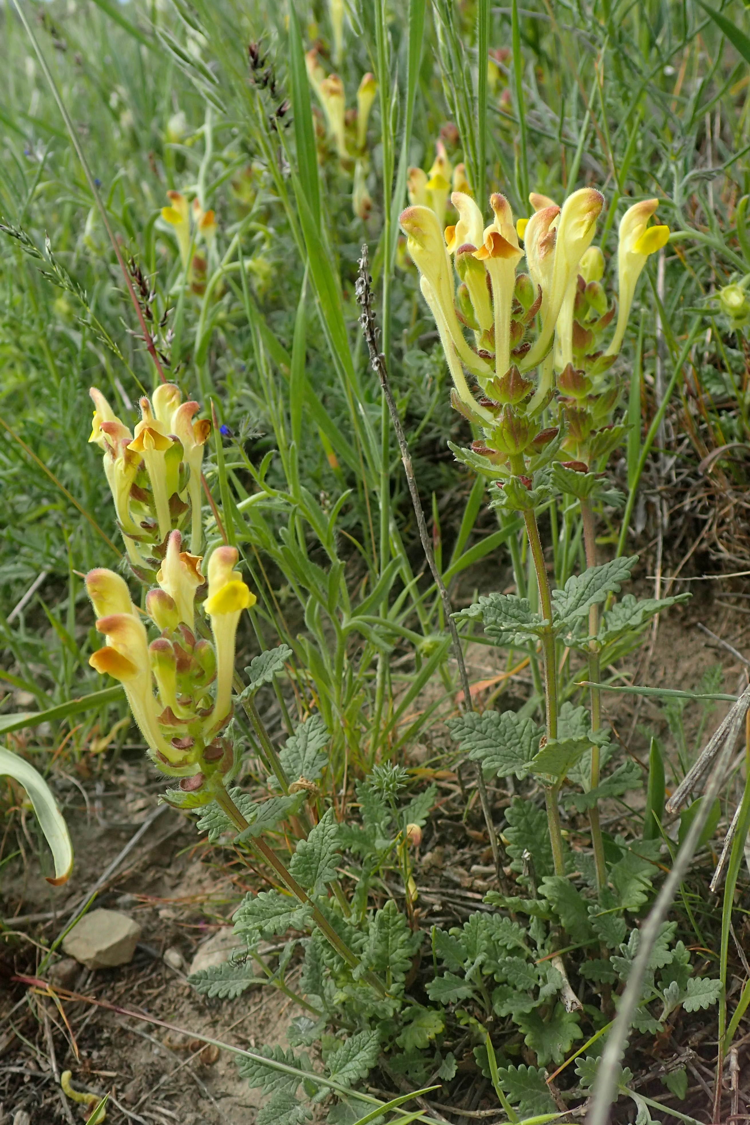 Scutellaria orientalis in Voghjaberd (Armenia)